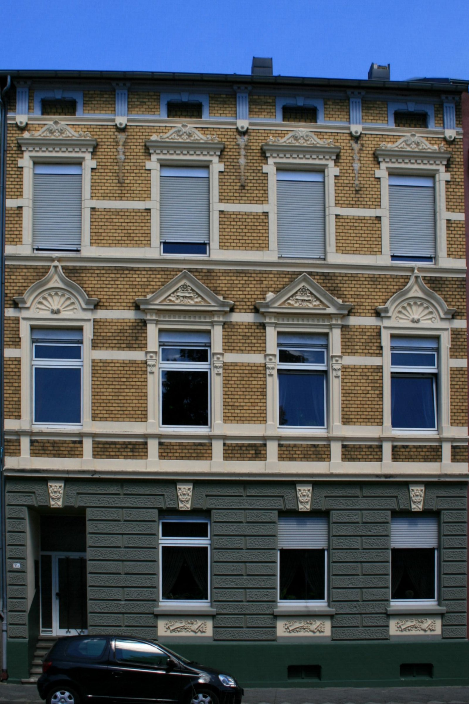 Cultural heritage monument No. M 042 in Mönchengladbach